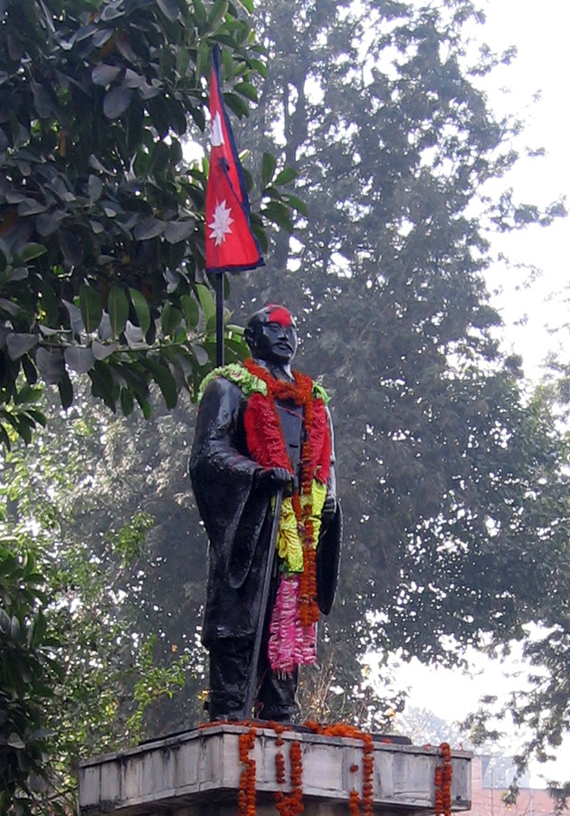 Full-length statue of Nepalese martyr Shukra Raj Shastri executed in 1941.